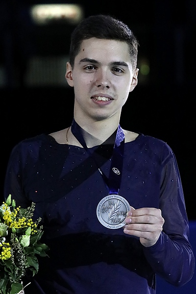 Roman Savosin at the Junior World Championships 2019 - Awarding ceremony